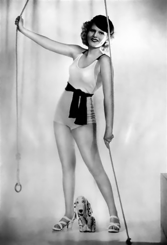 Zsa Zsa Gabor was born Sari Gabor in Budapest in 1917. She studied at a Swiss boarding school and moved into singing and acting in Europe by the 1930s.